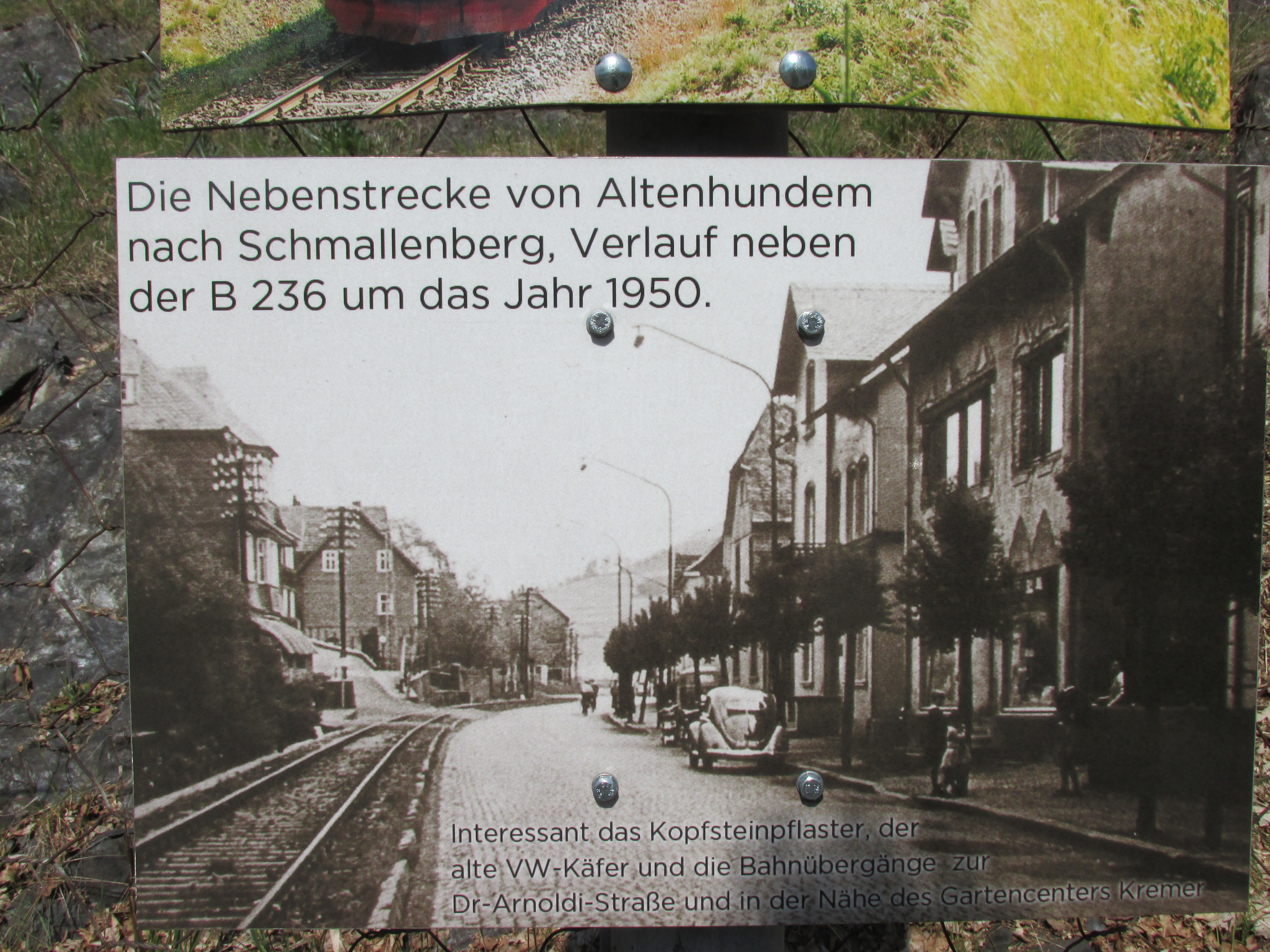 Route of former Altenhundem–Schmallenberg railway, Lennestadt, Germany check usage